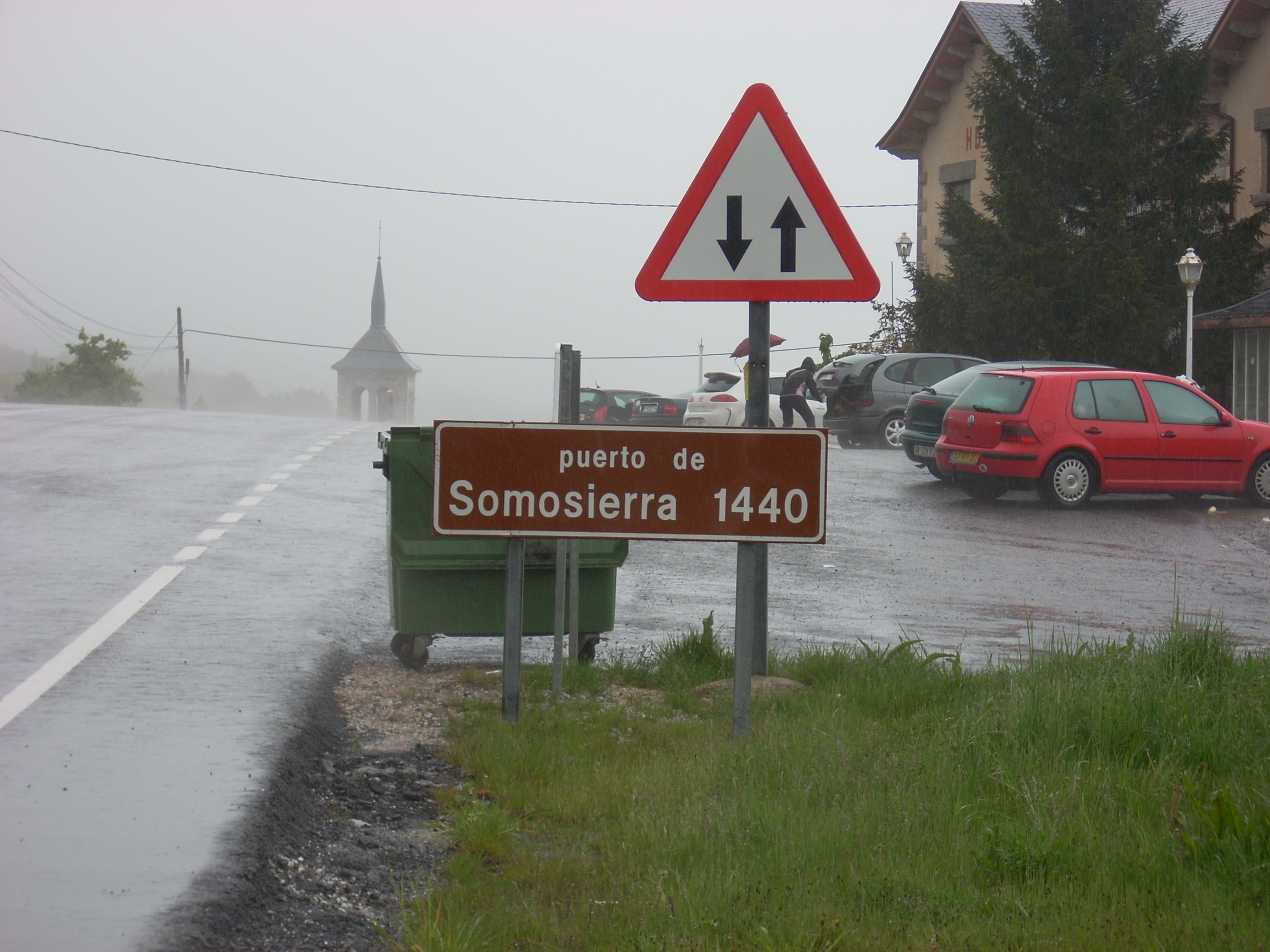 Somosierra pass, 1440 m, between the provinces of Segovia and Madrid